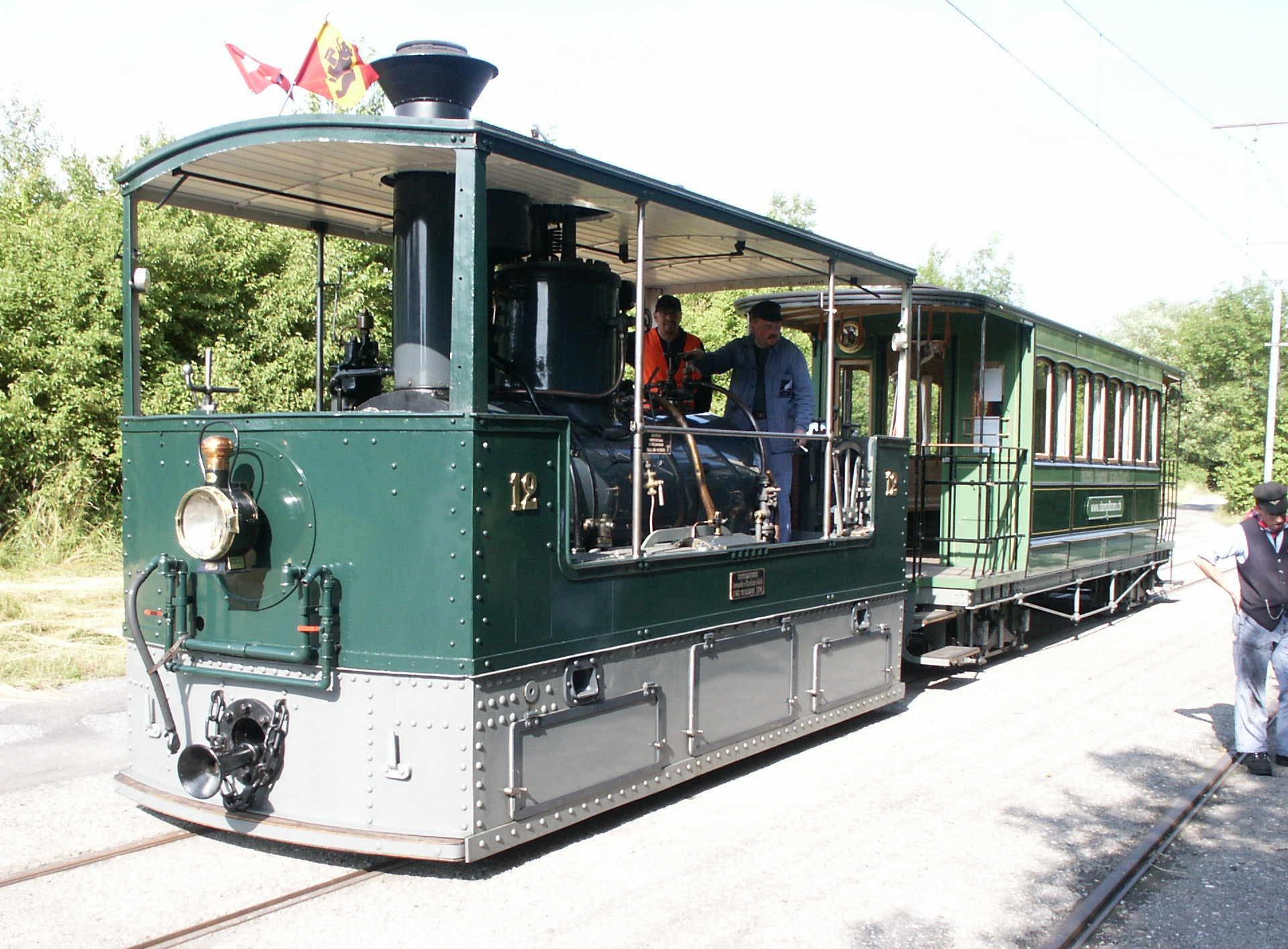 Steam tram in Berne, Switzerland